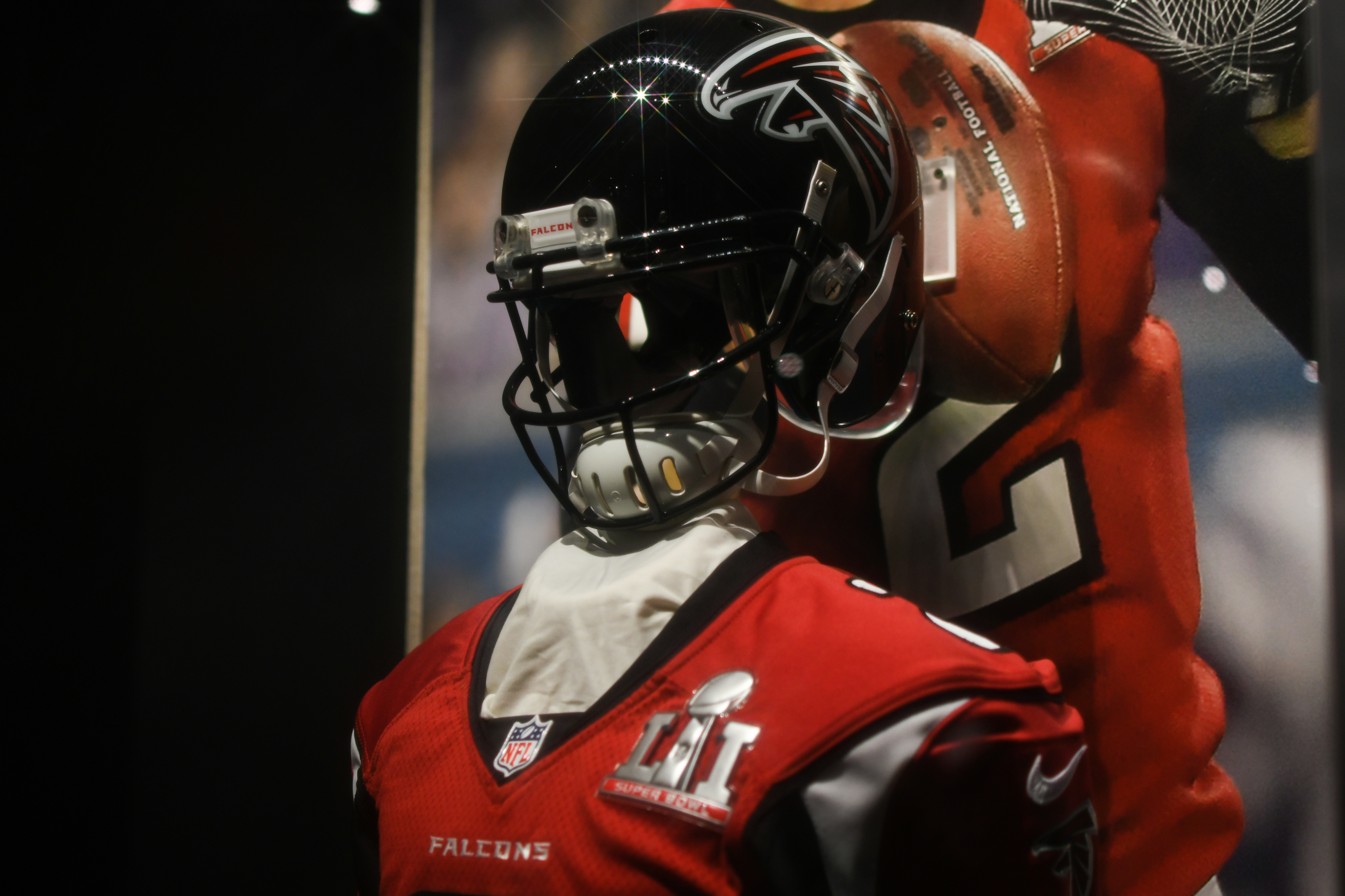 Atlanta Falcons QB Matt Ryan's #2 worn in the Super Bowl XI (2017), exhibited at the Pro Football Hall of Fame. The Falcons were defeated by the Patriots 34–28.